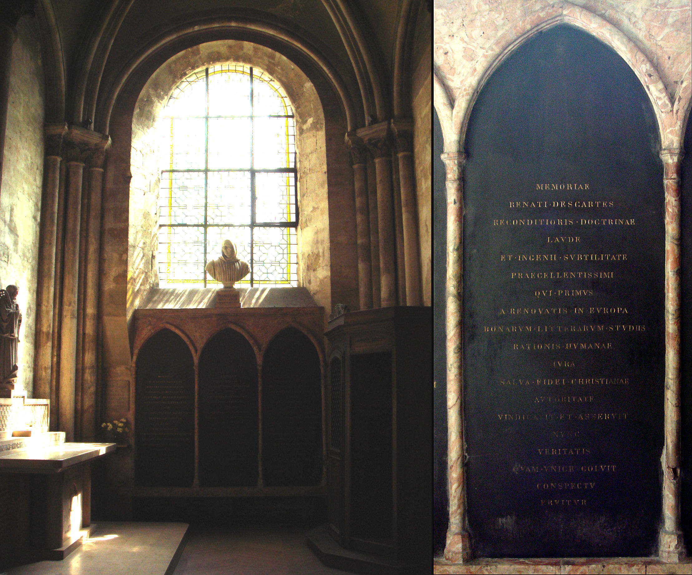 Ashes of Descartes, at Saint-Germain des Pres - Paris.